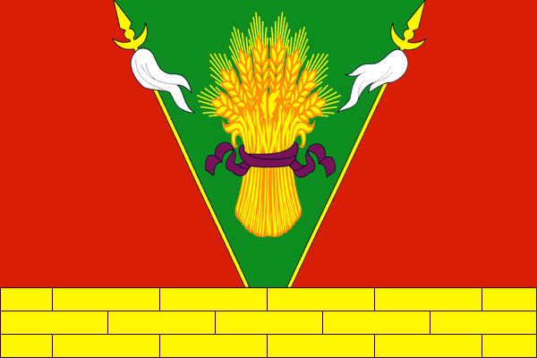 Flag of Tbilissky rayon, Krasnodar Territory, Russia